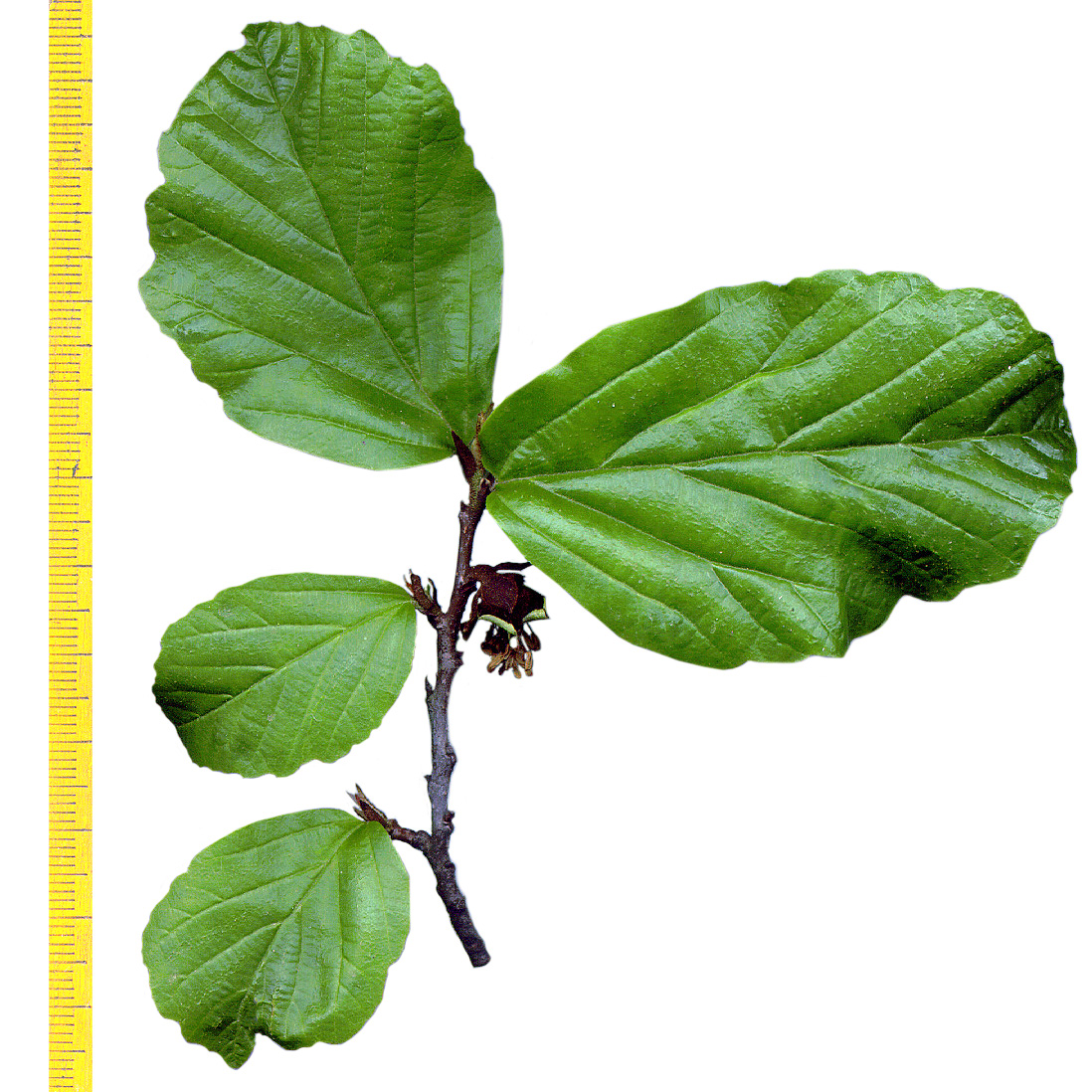 Leaves of Parrotia